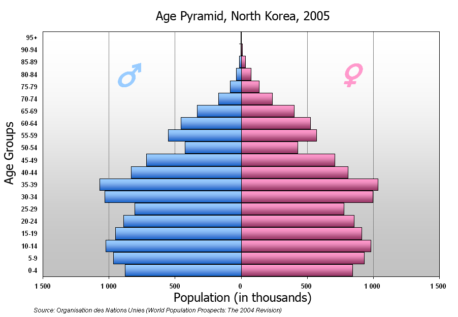 Age Pyramid of North Korea translated from french